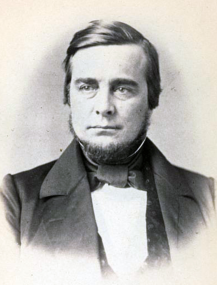 Homer Elihu Royce, US Representative from Vermont